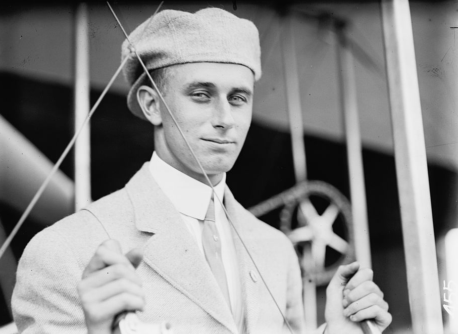 Harry Nelson Atwood (1883-1967) circa 1913. This image has been cropped to remove the frame.